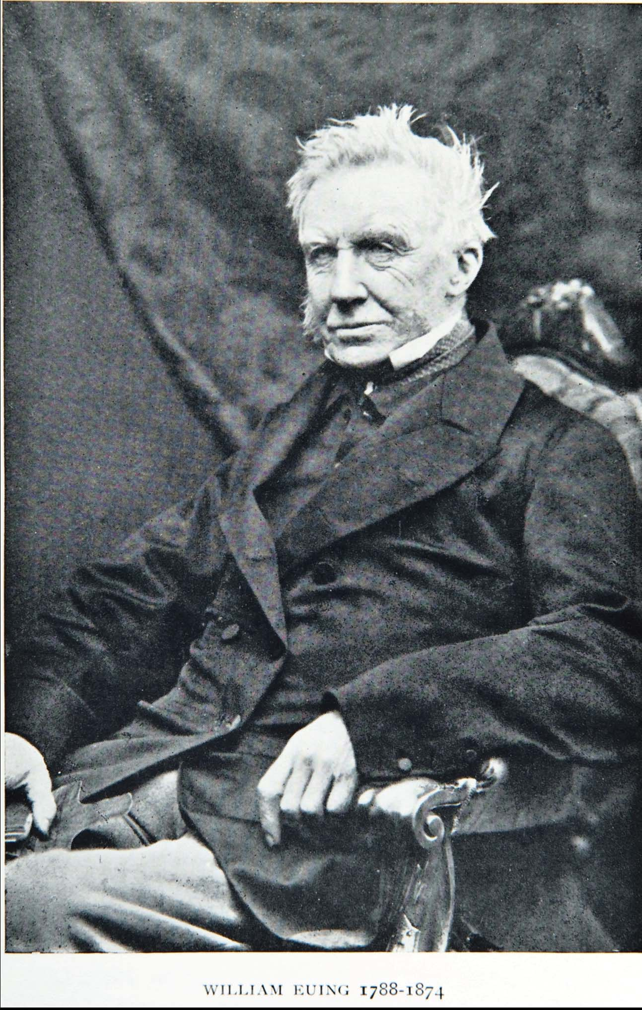 Portrait photo of underwriter and marine insurance broker William Euing (1788-1874).